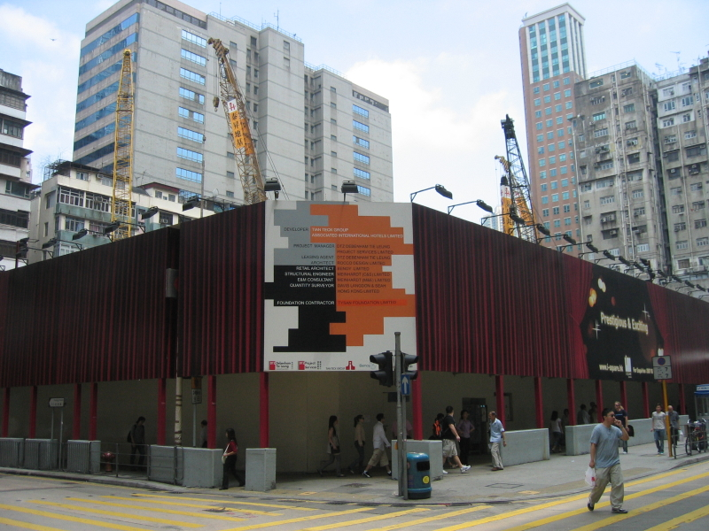 Hyatt Regency Hotel Demolition Site